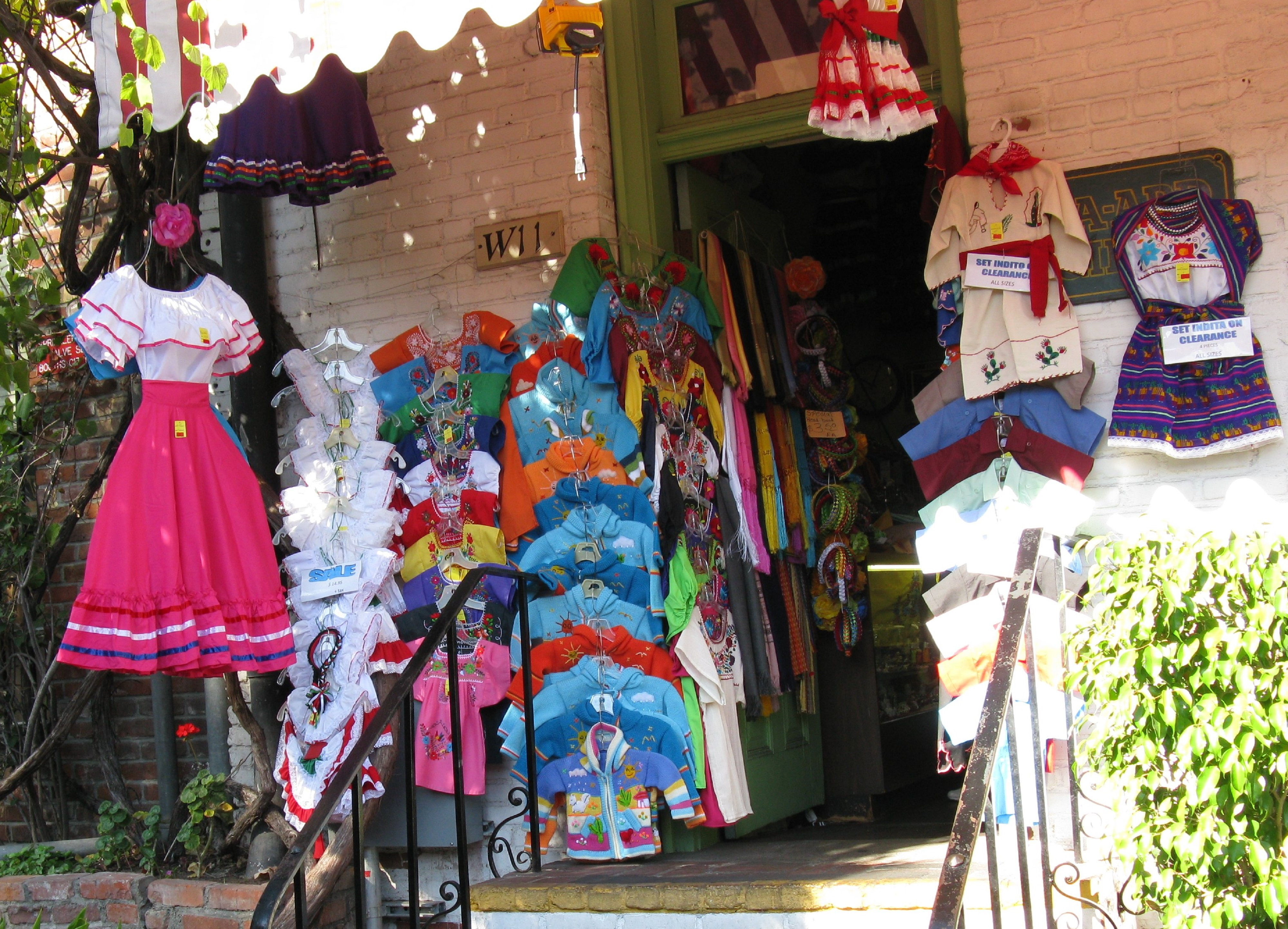 Re-created "authentic" look